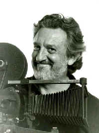 Roby Carletta